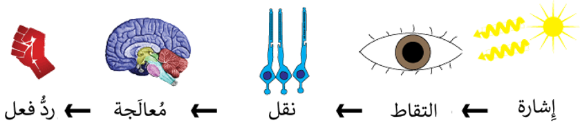 Principle steps of sensory processing